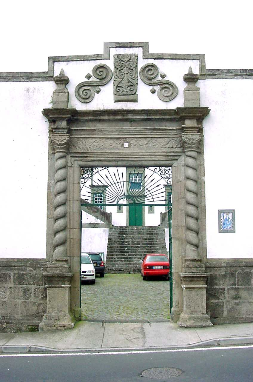 The main door of the Palácio de Santa Catarina, episcopal seat of the bishporic, Pico da Urze, São Pedro, Angra do Heroísmo (Azores), Portugal